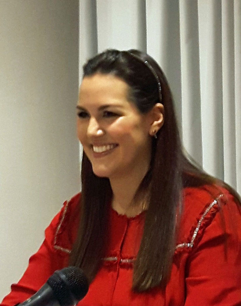 Federica Lombardi, soprano, during artist's talk with Interessenverein des Bayerischen Staatsopernpublikums e.V, Nov. 02, 2017